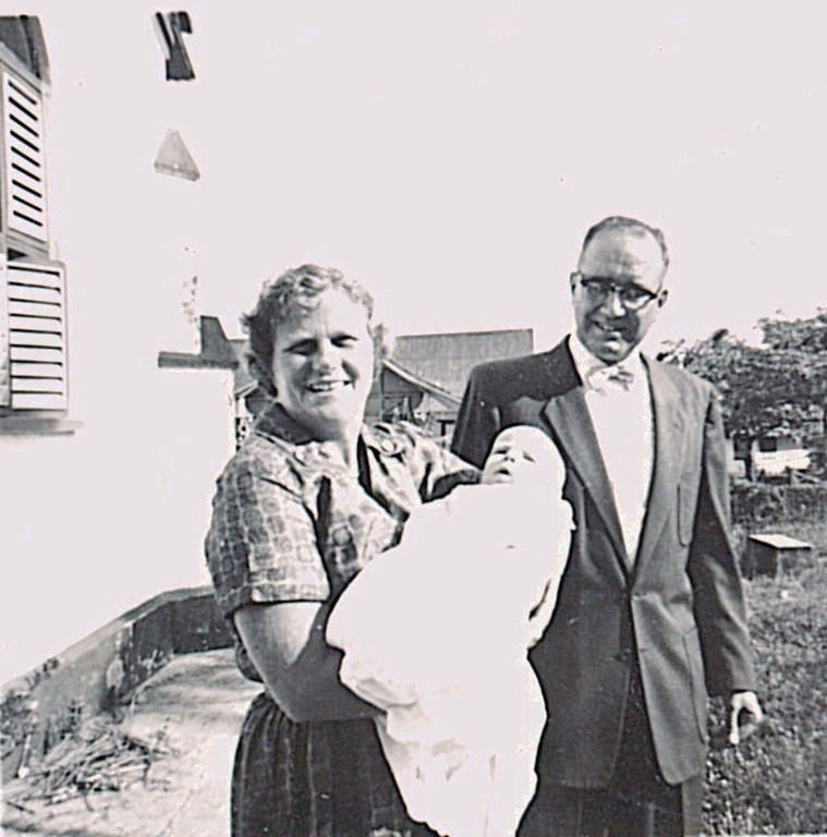 Photo taken in Trinidad c. 1960.